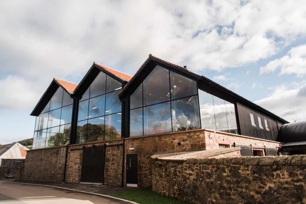 Lindores Abbey Distillery sits opposite the ruins of Lindores Abbey